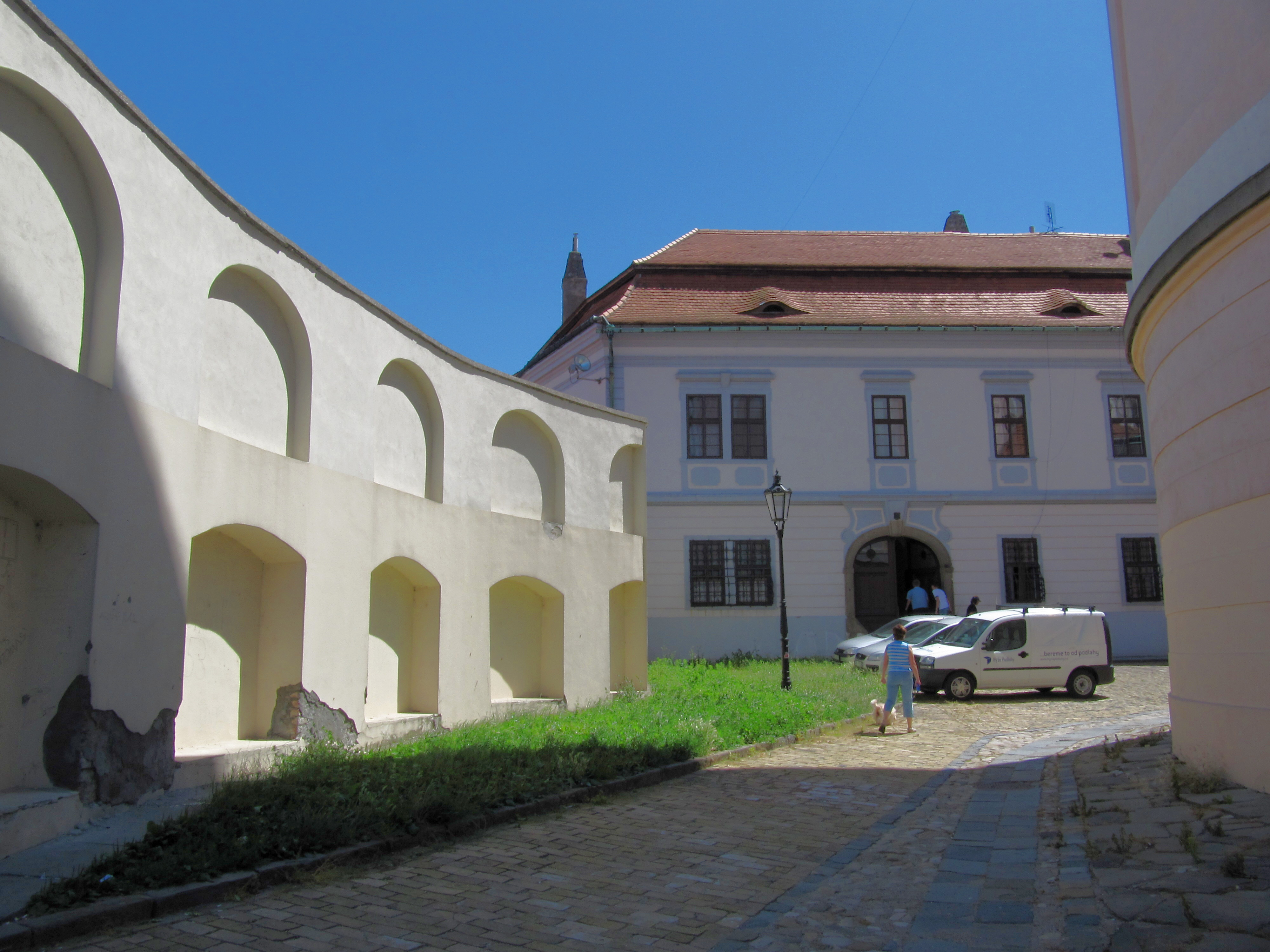 Kroměříž, Czech Republic. A uniquely preserved part of the separation wall in 1701, which separated the Jewish ghetto. Located at Tyl street at the parish church of Virgin Mary.